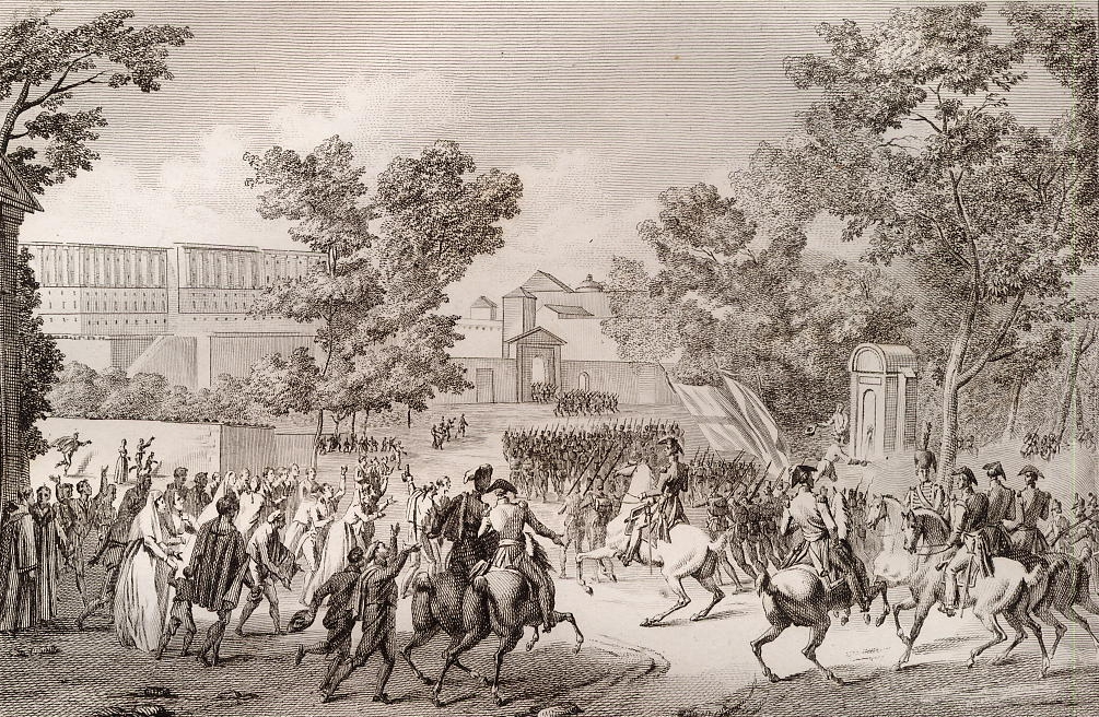 City of Madrid in 1812. British Army.